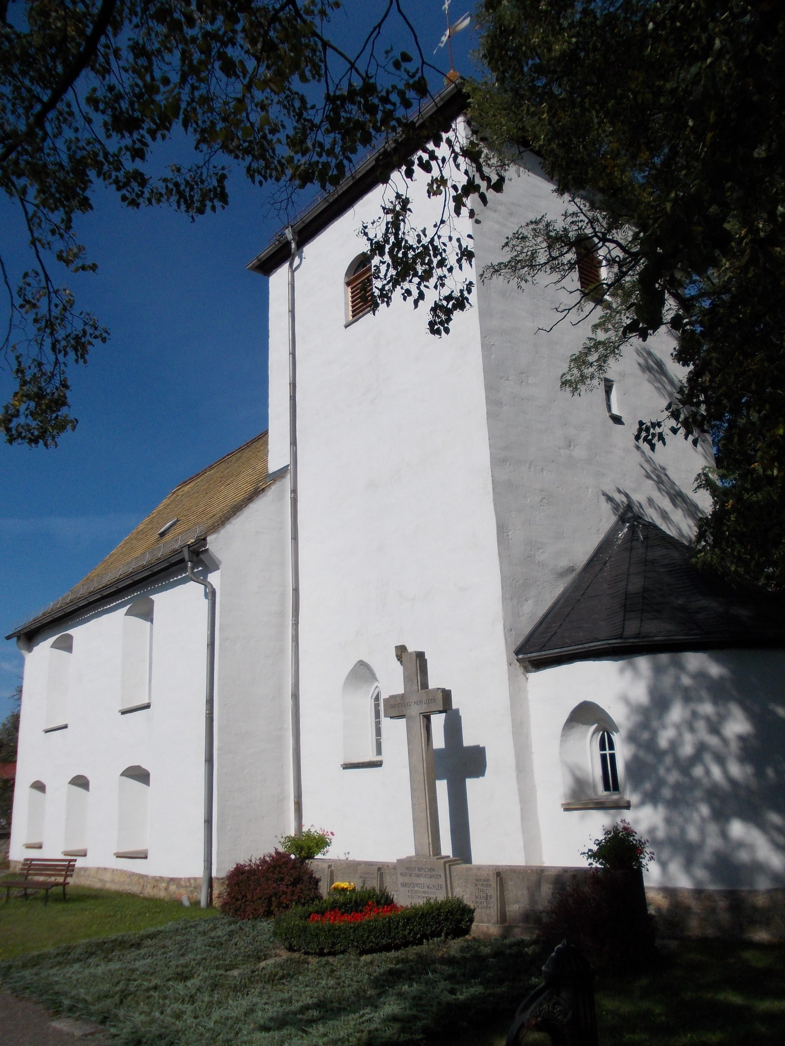 Frankenau church (Reichstädt, Greiz district, Thuringia)